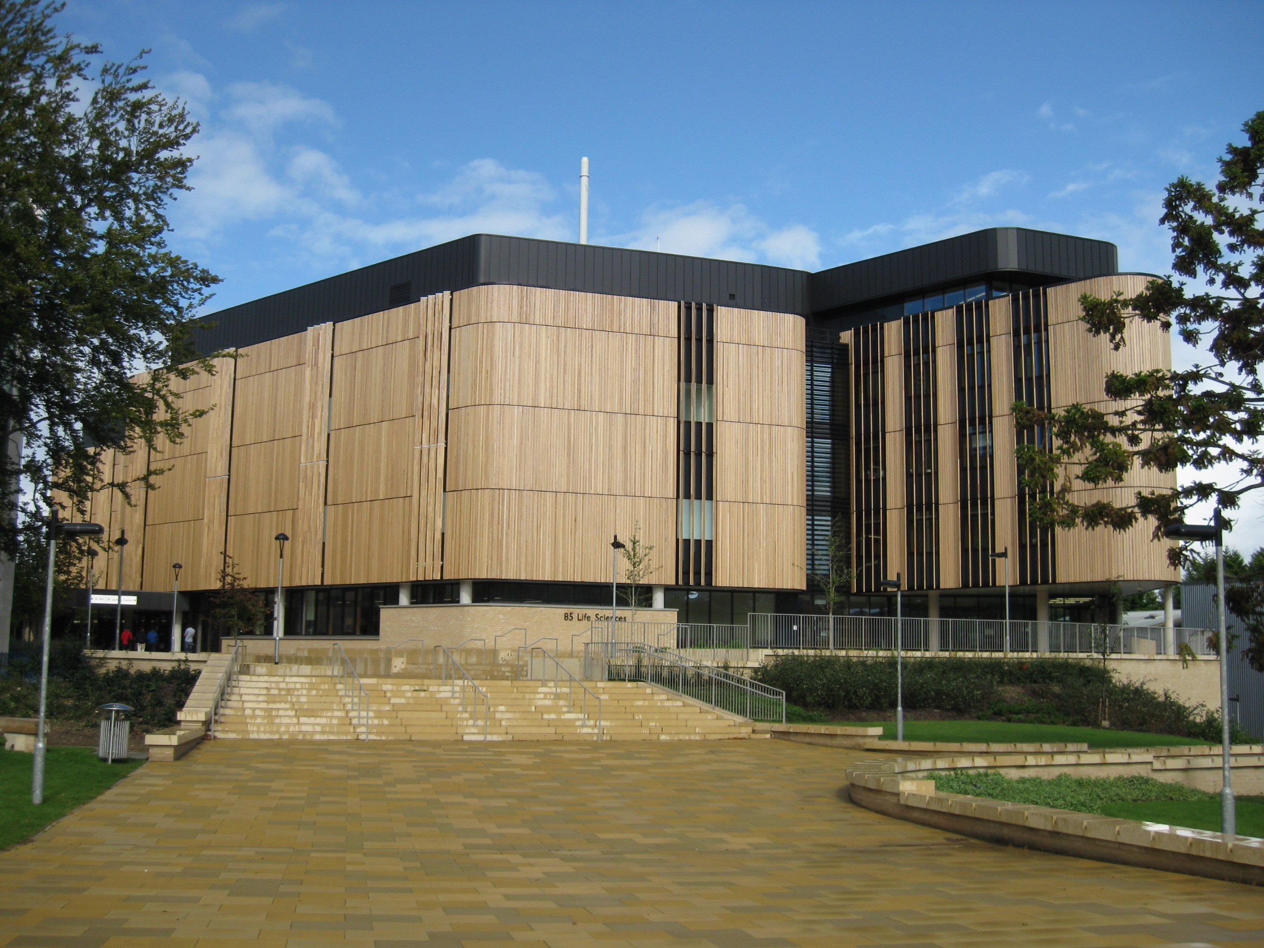 Life Sciences building, Southampton University. Completed September 2010. Winner of 2011 RIBA award